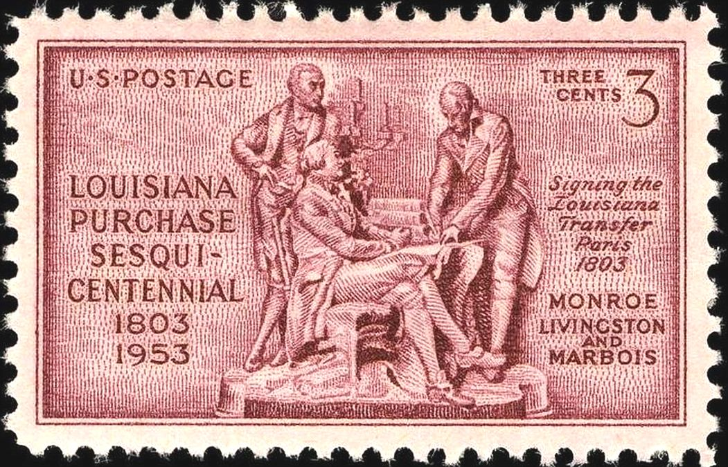 US postage stamp: 3-cent Louisiana Purchase maroon commemorative stamp issued April 30, 1953. The stamp is a reproduction of a sculptured plaque by Karl Bitter, depicting James Monroe, Robert R. Livingston, and Francois Barbe Marbois, signing the Louisiana Transfer at Paris in 1803.